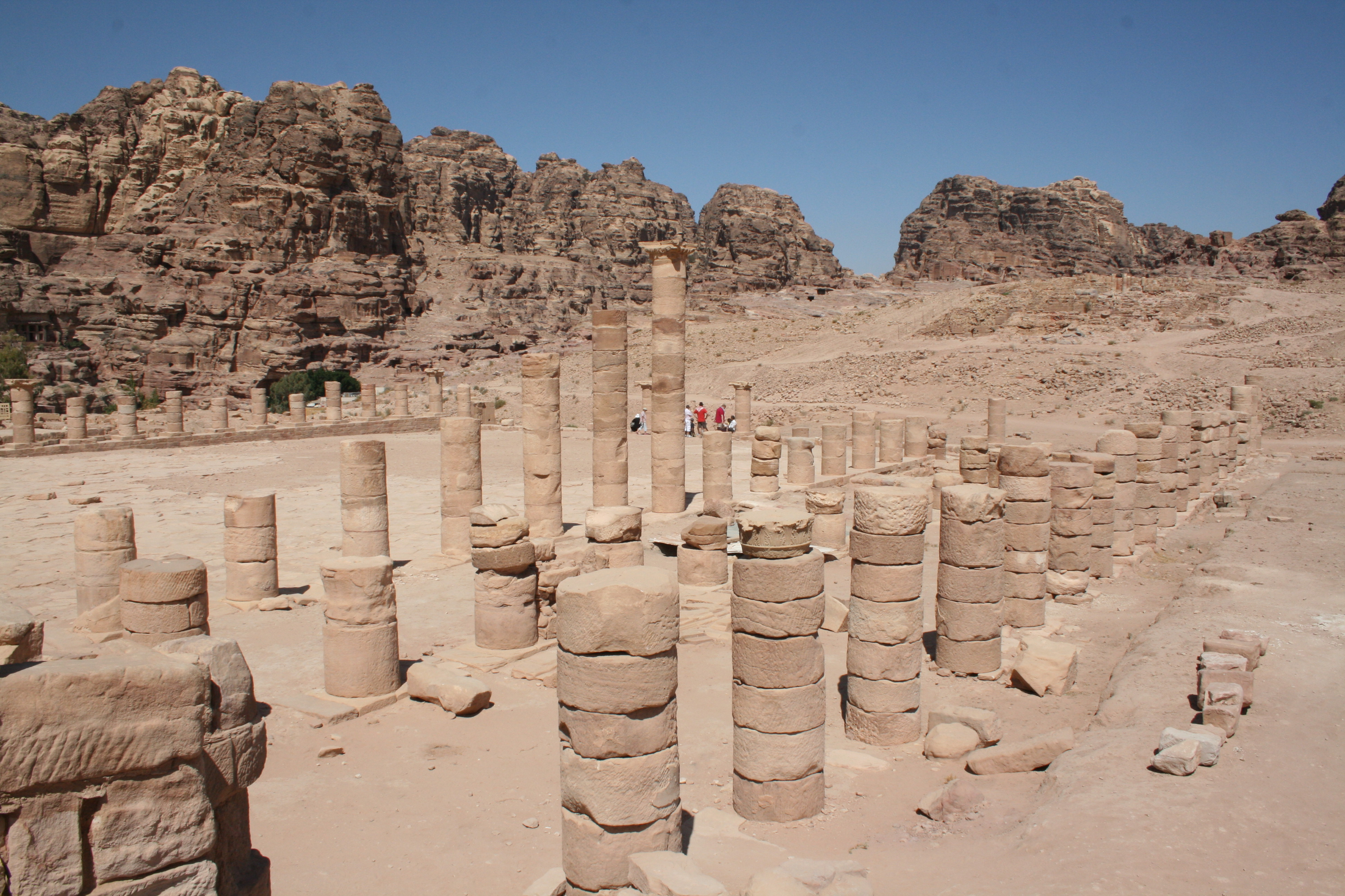 Great Temple, Petra, Jordan